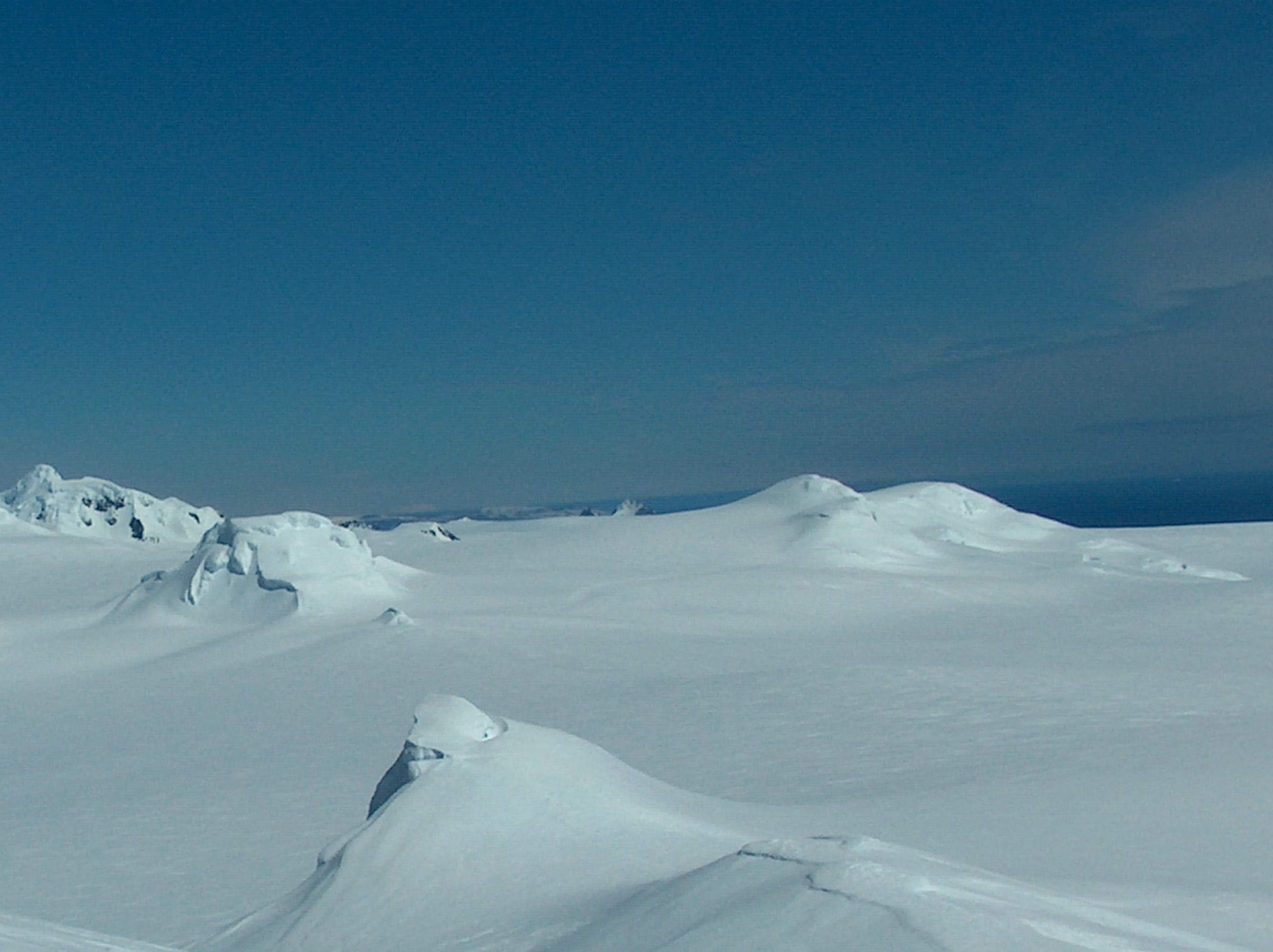 The Elhovo gap. source-Lyubomir Ivanov